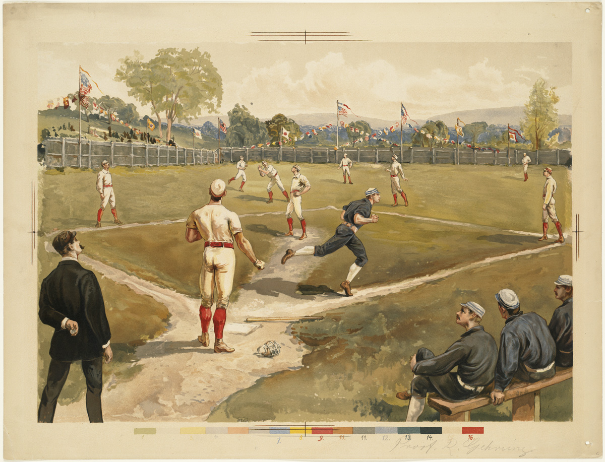 File name: 07_11_001440 Title: Baseball Creator/Contributor: Sandham, Henry, 1842-1910 (artist); L. Prang & Co. (publisher) Date issued: 1861-1897 (approximate) Copyright date: Physical description note: Proof print Genre: Chromolithographs; Genre prints; Proofs Location: Boston Public Library, Print Department Rights: No known restrictions Flickr data on 2011-08-03: Camera: Sinar AG Sinarback 54 FW, Sinar m Tags: red sox License: CC BY 2.0 User: Boston Public Library BPL